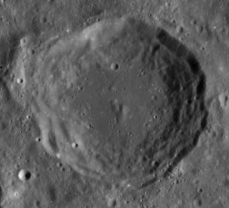 Artem'ev crater, on the far side of the moon. LRO WAC mosaic.